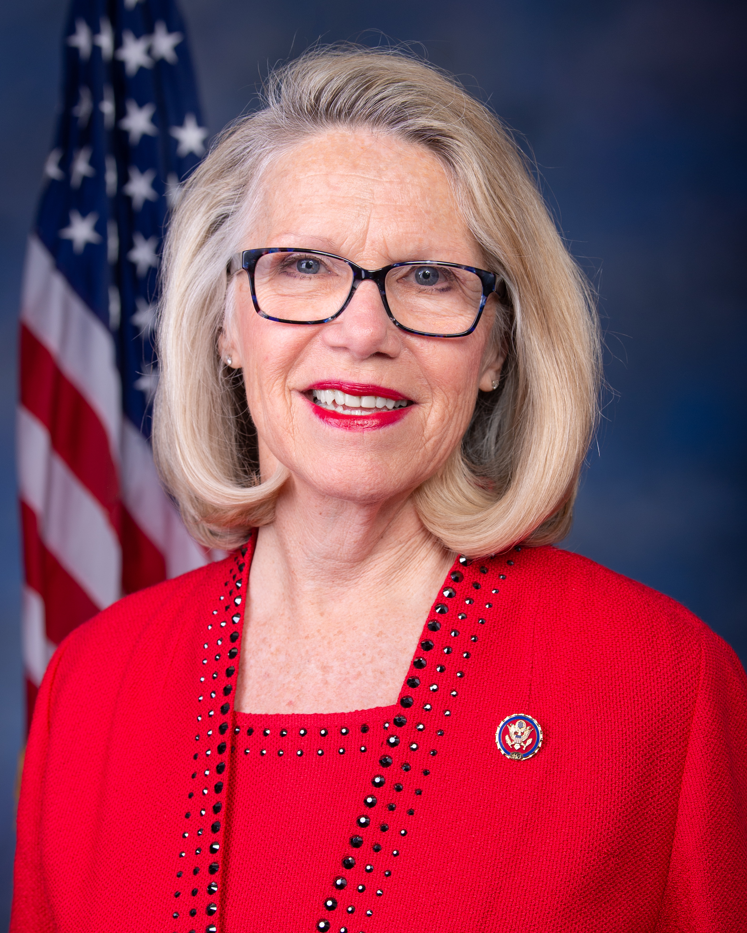 US Rep Carol Miller (R-WV)